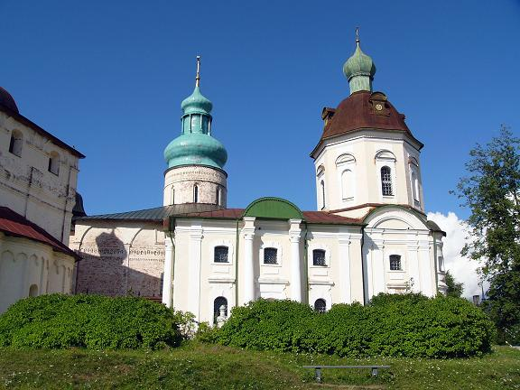 Kirillo-Belozersky Monastery. Kirill Church and Uspensky Cathedral